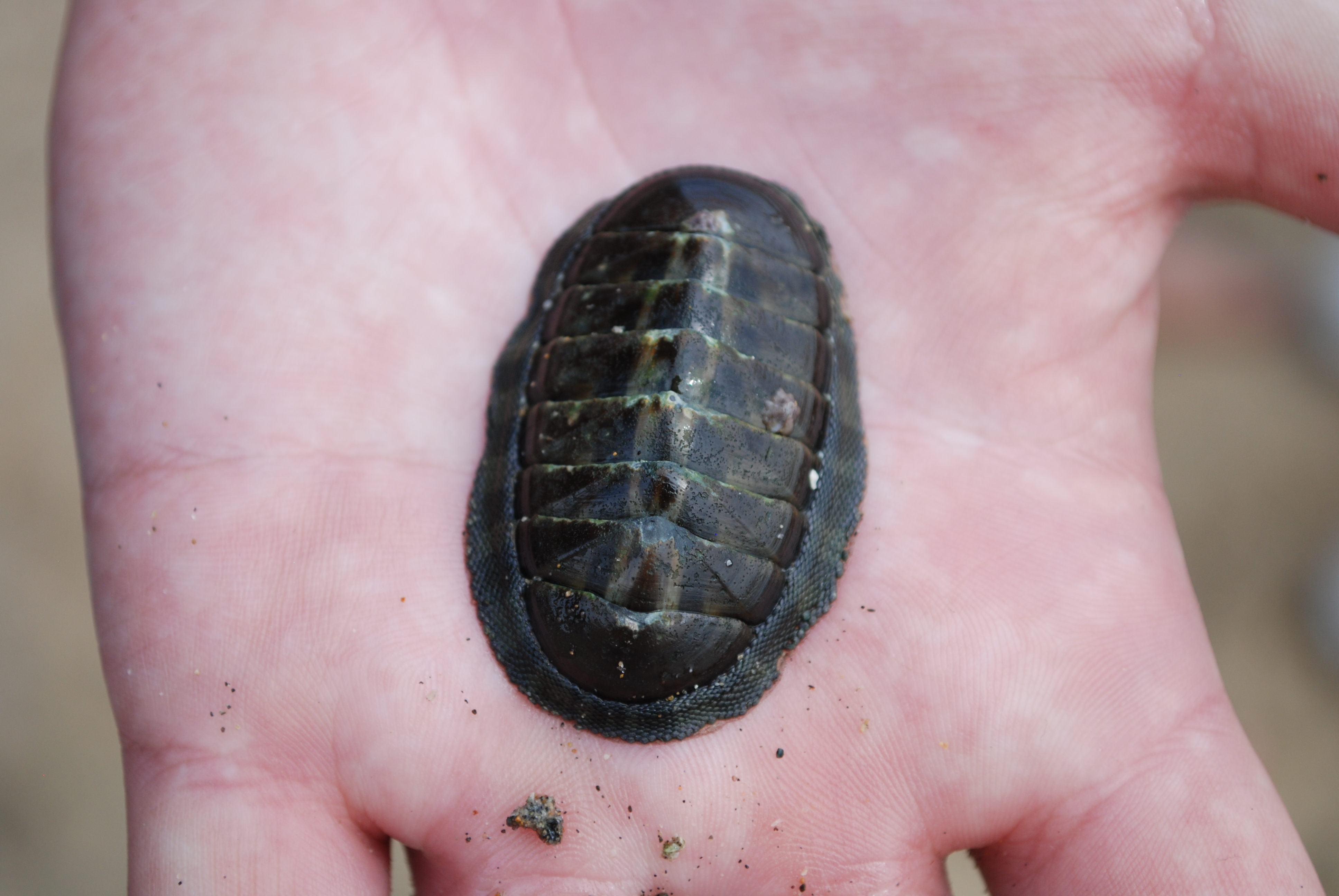 unidentified sea animal found on rocks at Puerto Vicente Guerrero, Guerrero, Mexico